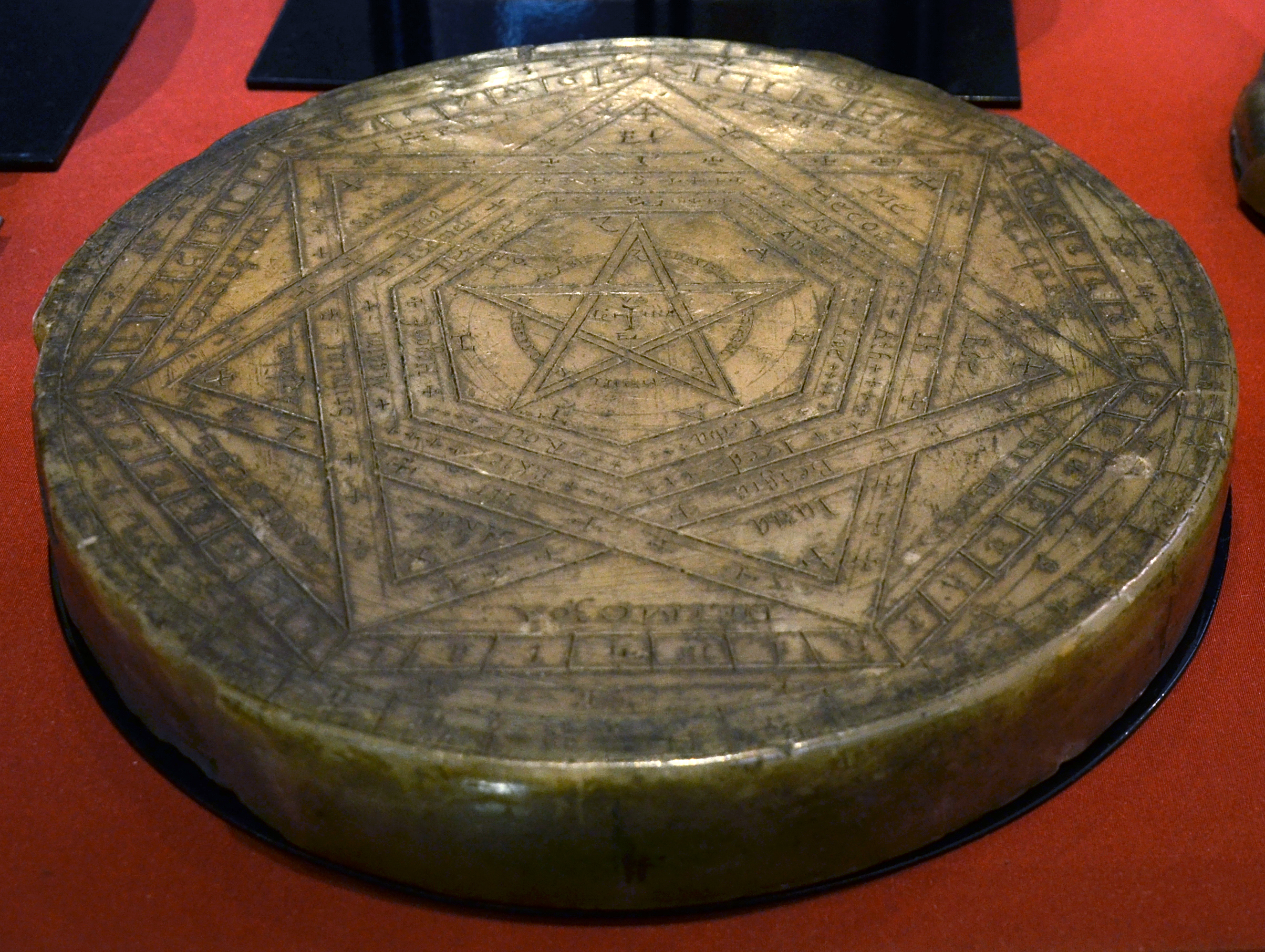 John Dee's Seal of God, now in the collections of the British Museum.